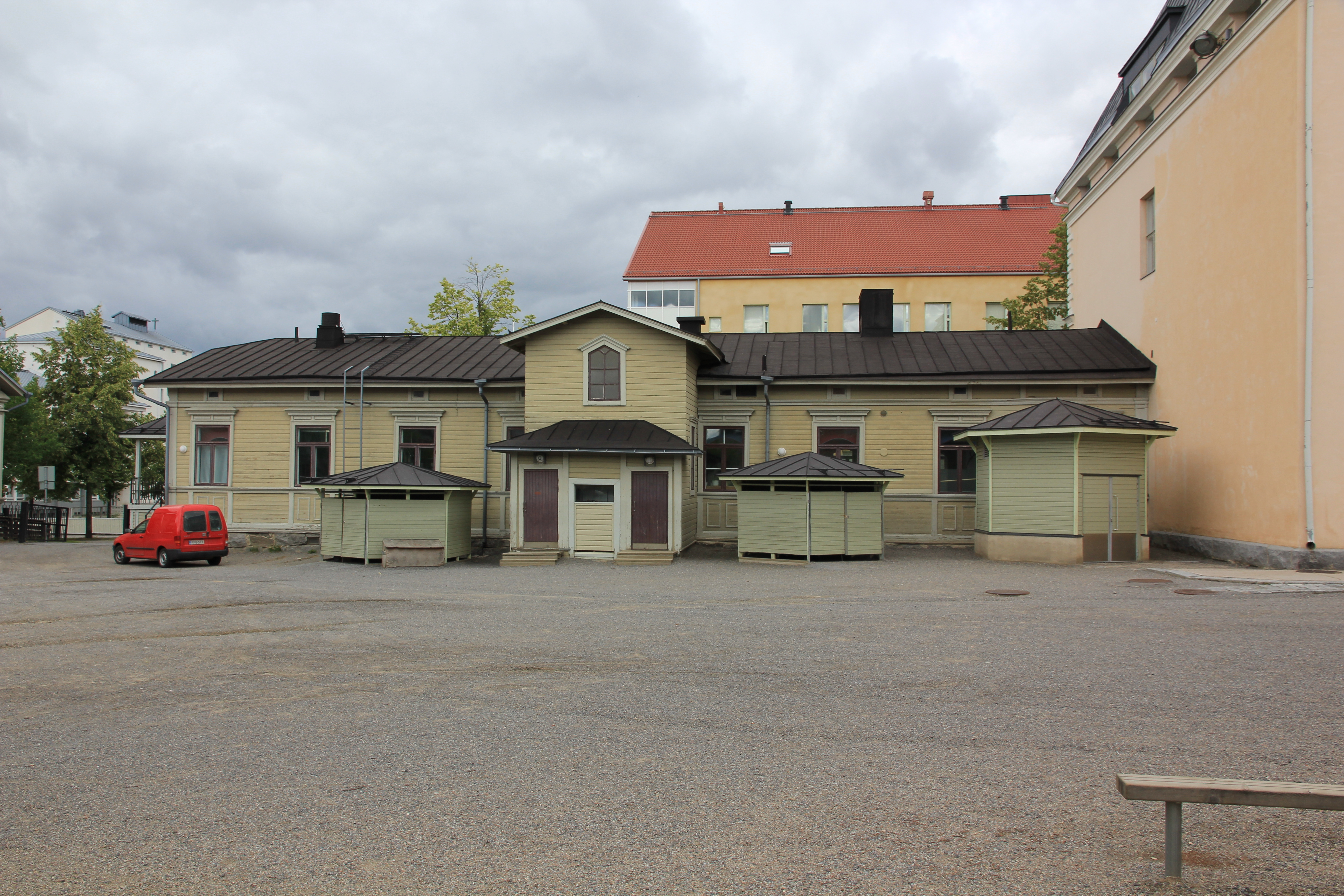 Päämajakoulu school in Mikkeli, southern wooden wing.